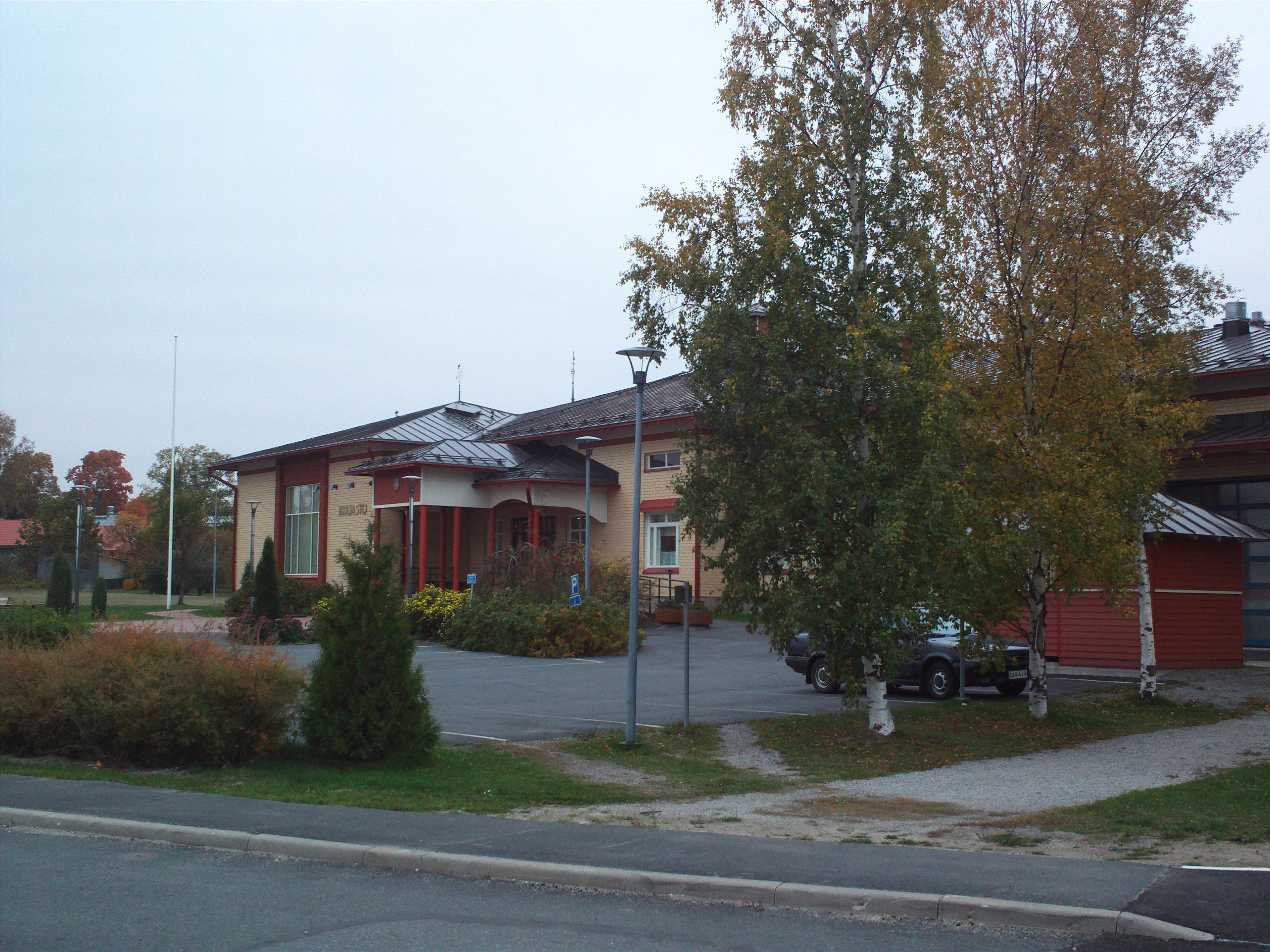 The public library building. In Laitila, in southwestern Finland, Laitila.